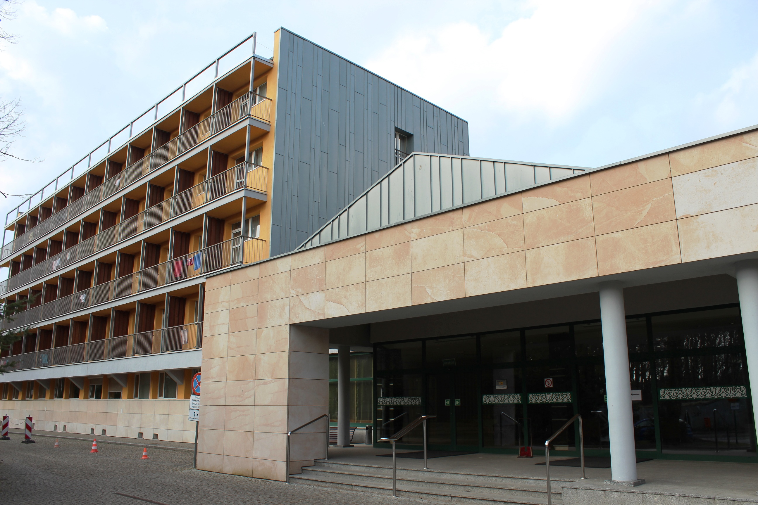 Interferie Chalkozyn Sanatorium in Kołobrzeg